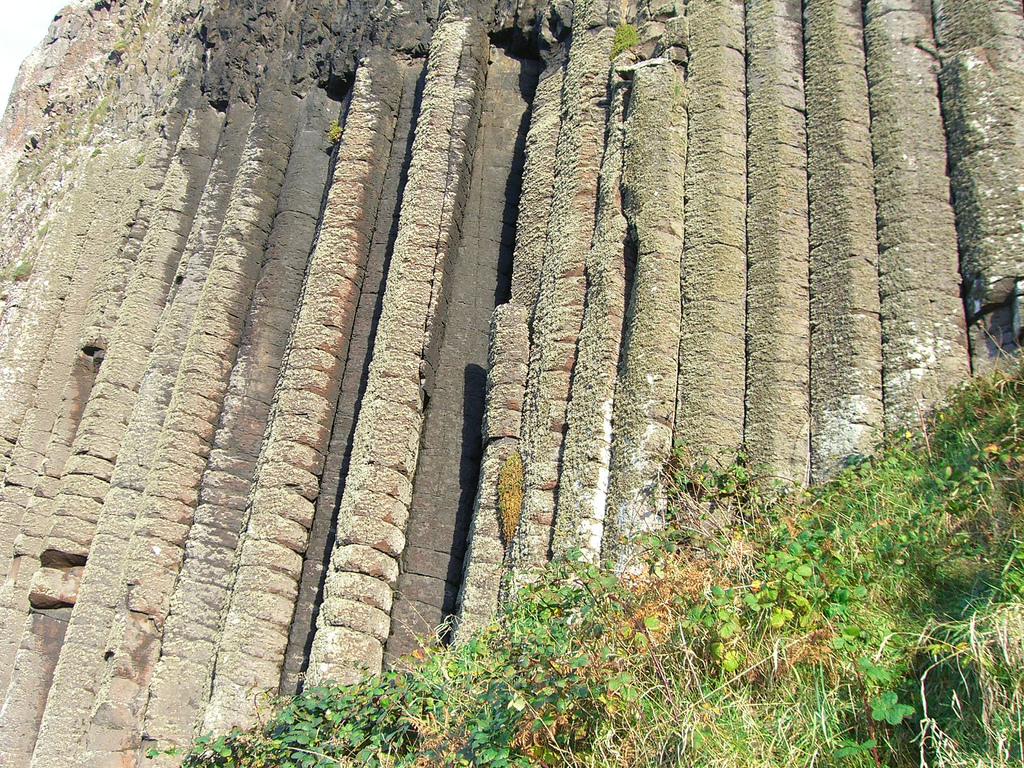 Giant's causeway, cliff (Antrim plateau)